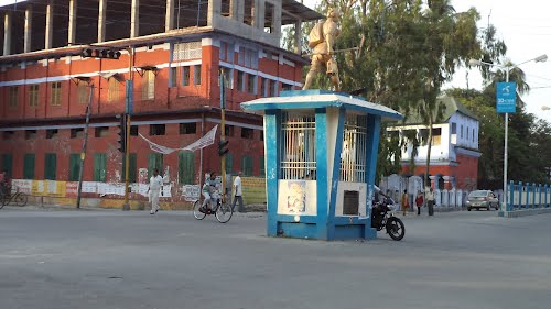 Jalpaiguri